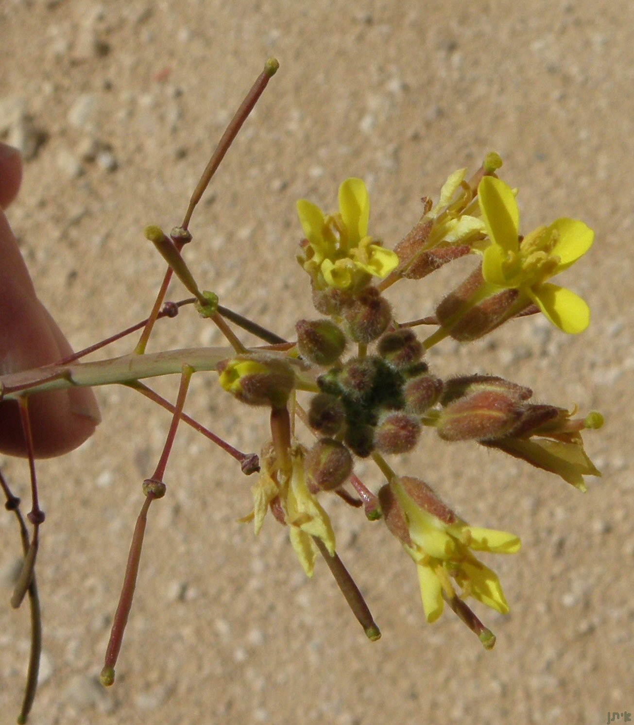 Diplotaxis harra flower and pods - Negev